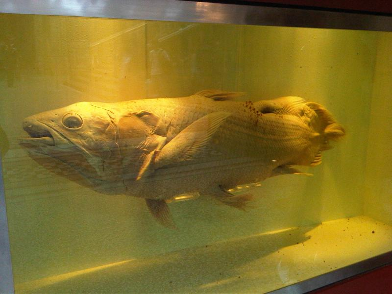 West Indian Ocean coelacanth (Latimeria chalumnae) at the Natural History Museum in London, England.